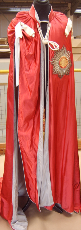 Mantle of the Most Excellent Order of the British Empire